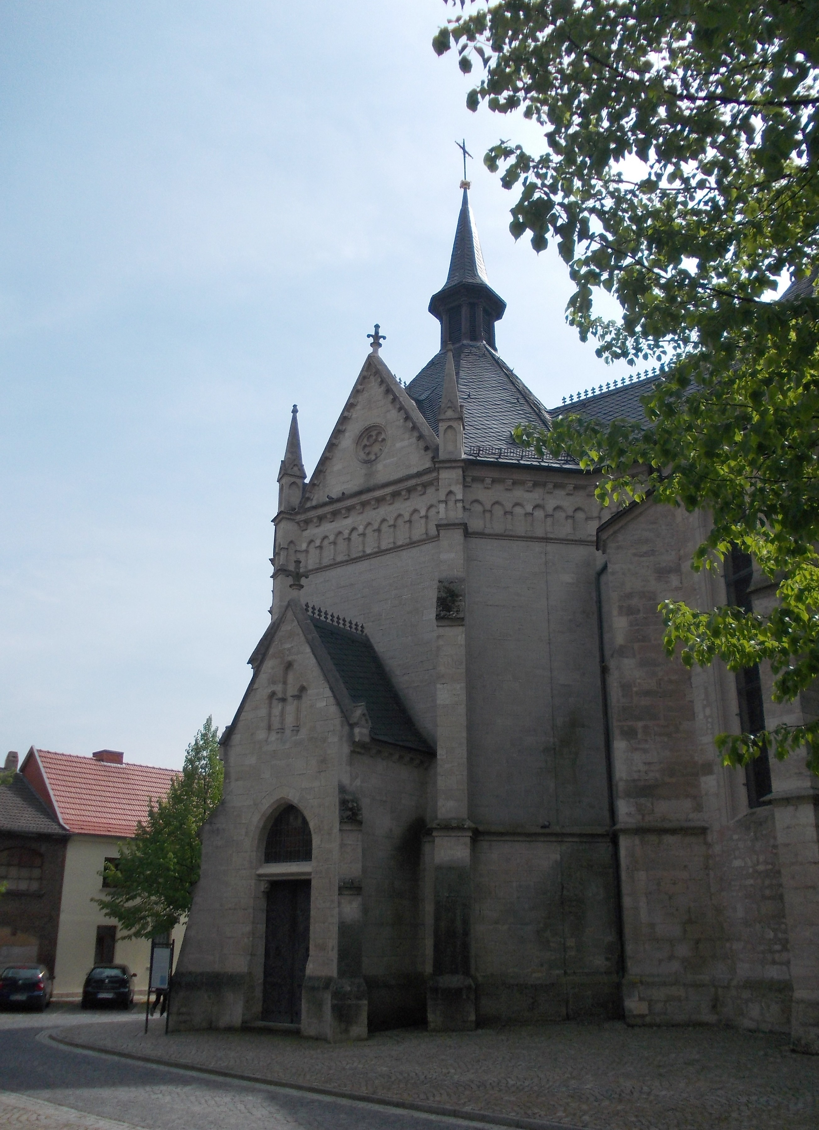 Royal mausoleum at Trinity Church in Sondershausen (district: Kyffhäuserkeis, Thuringia)